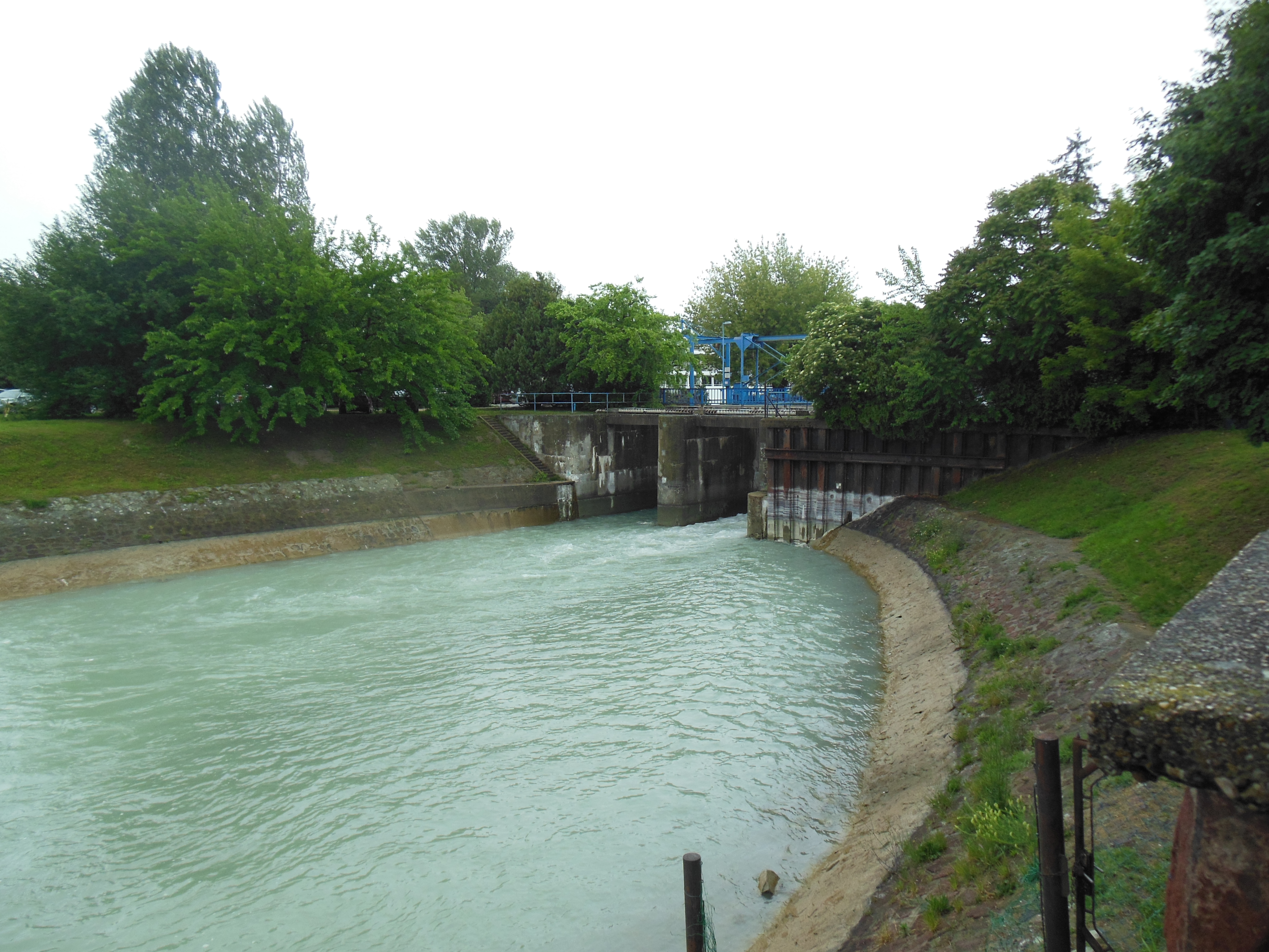 Parking above the river Sio